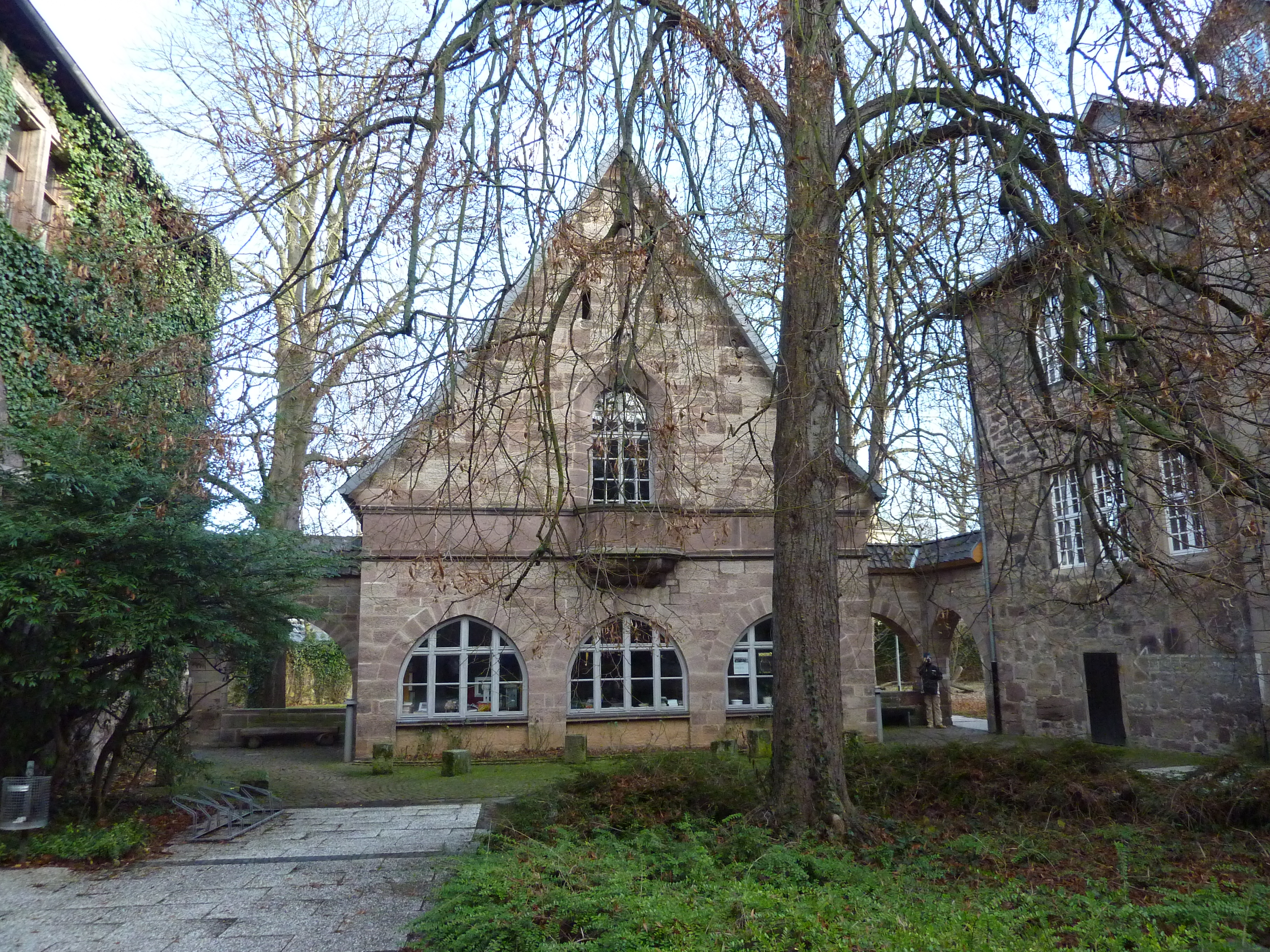 The Deutsches Institut für tropische und subtropische Landwirtschaft is housed in the buildings of the former Williamite cloister, Witzenhausen